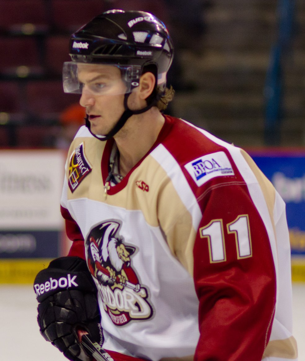 Vyacheslav Trukhno with the Bakersfield Condors in 2011 during a game vs. the Ontario Reign.